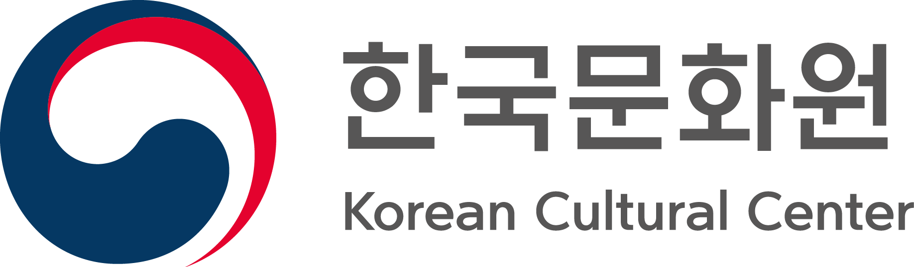 New logo of the Korean Cultural Center